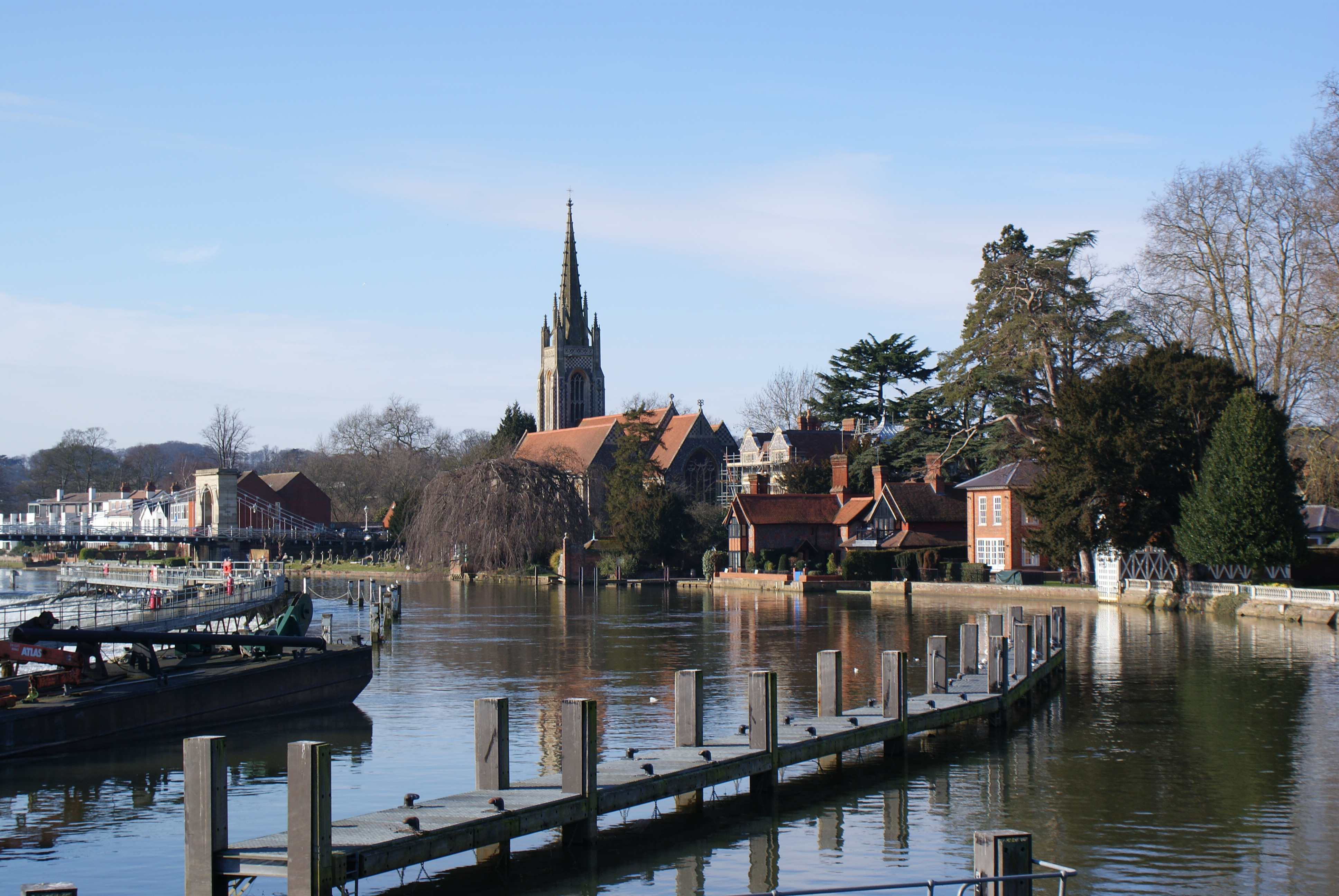 Marlow lock at the Thames river and All Saints church in the town of Marlow, Buckinghamshire, England.